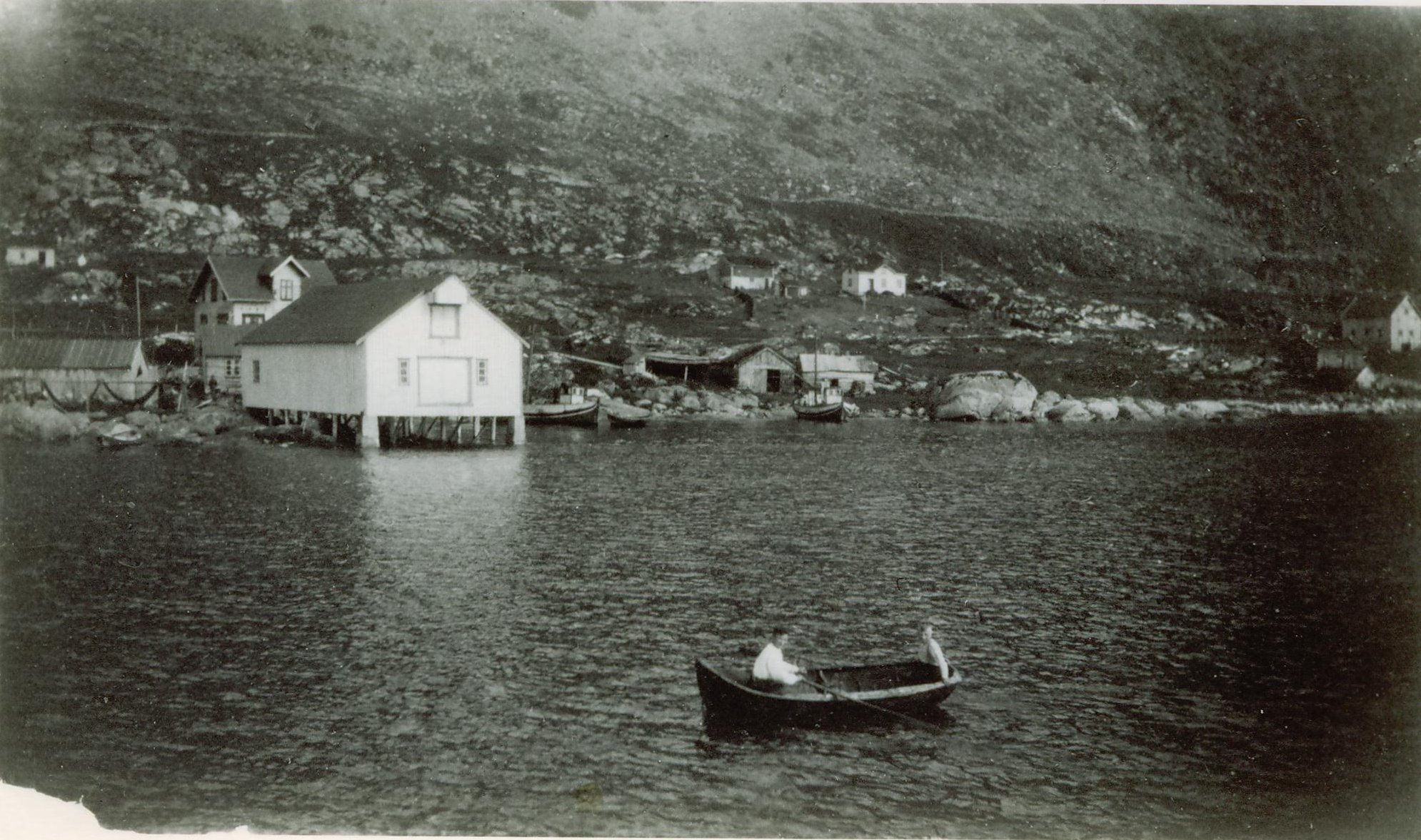 Picture of fishing village Gravermark in Lofoten, northern Norway. Anno 1938.